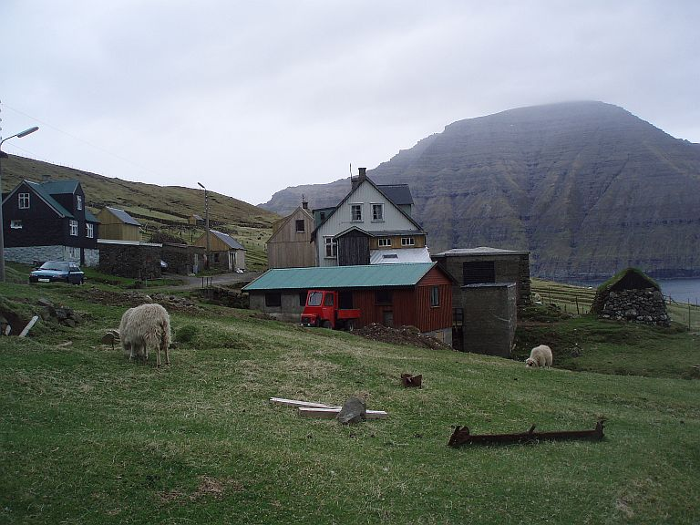 Múli, abandoned settlement Faroe Islands Føroyskt: Múli: Í Múla 2008